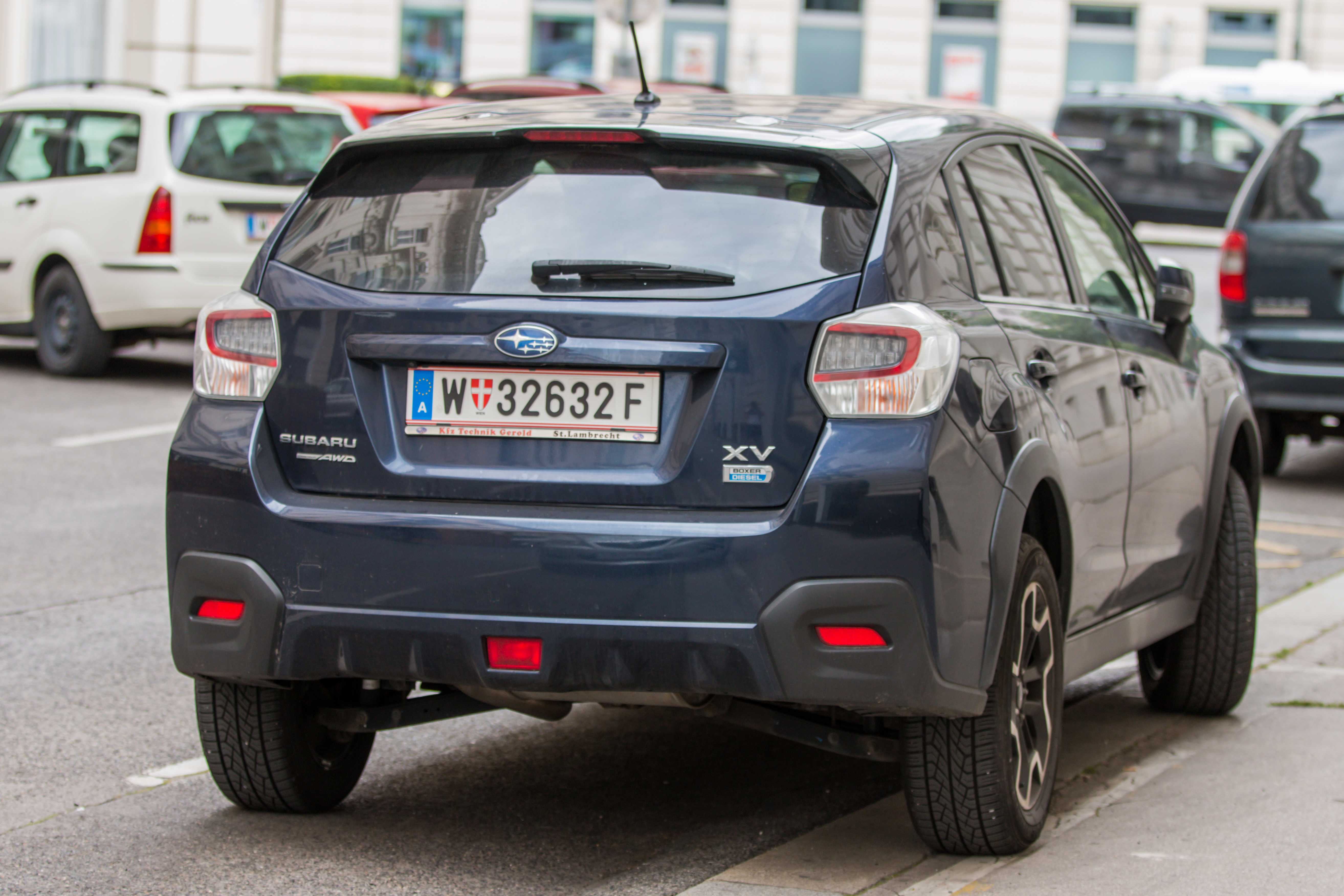 Subaru XV